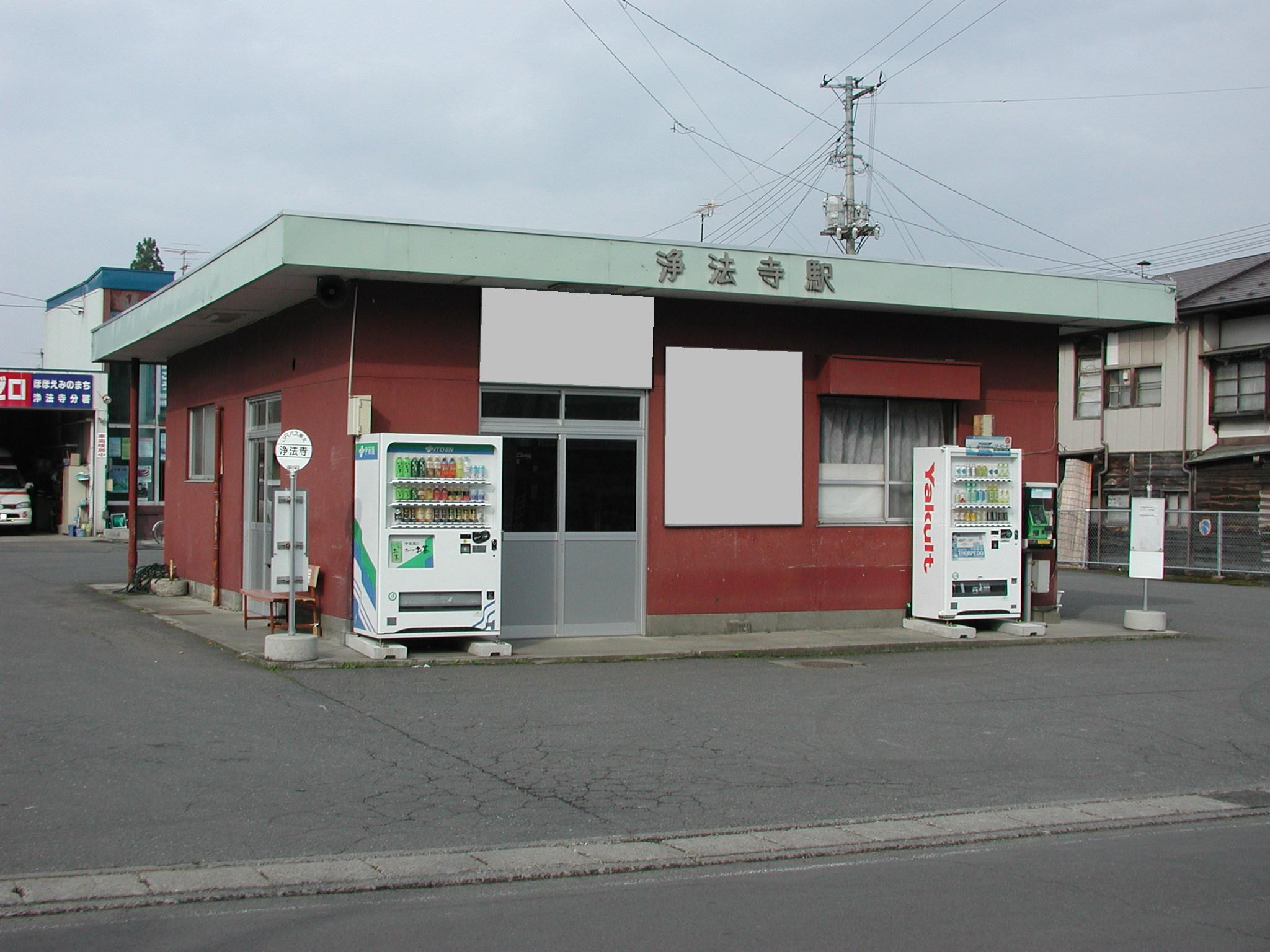 JR Bus Tohoku Jyoboji Station